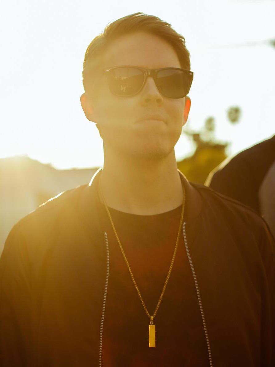 X-Plosive in LA